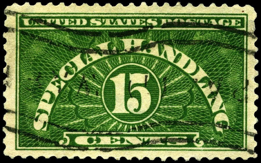 United States 15c special handling stamp of 1928